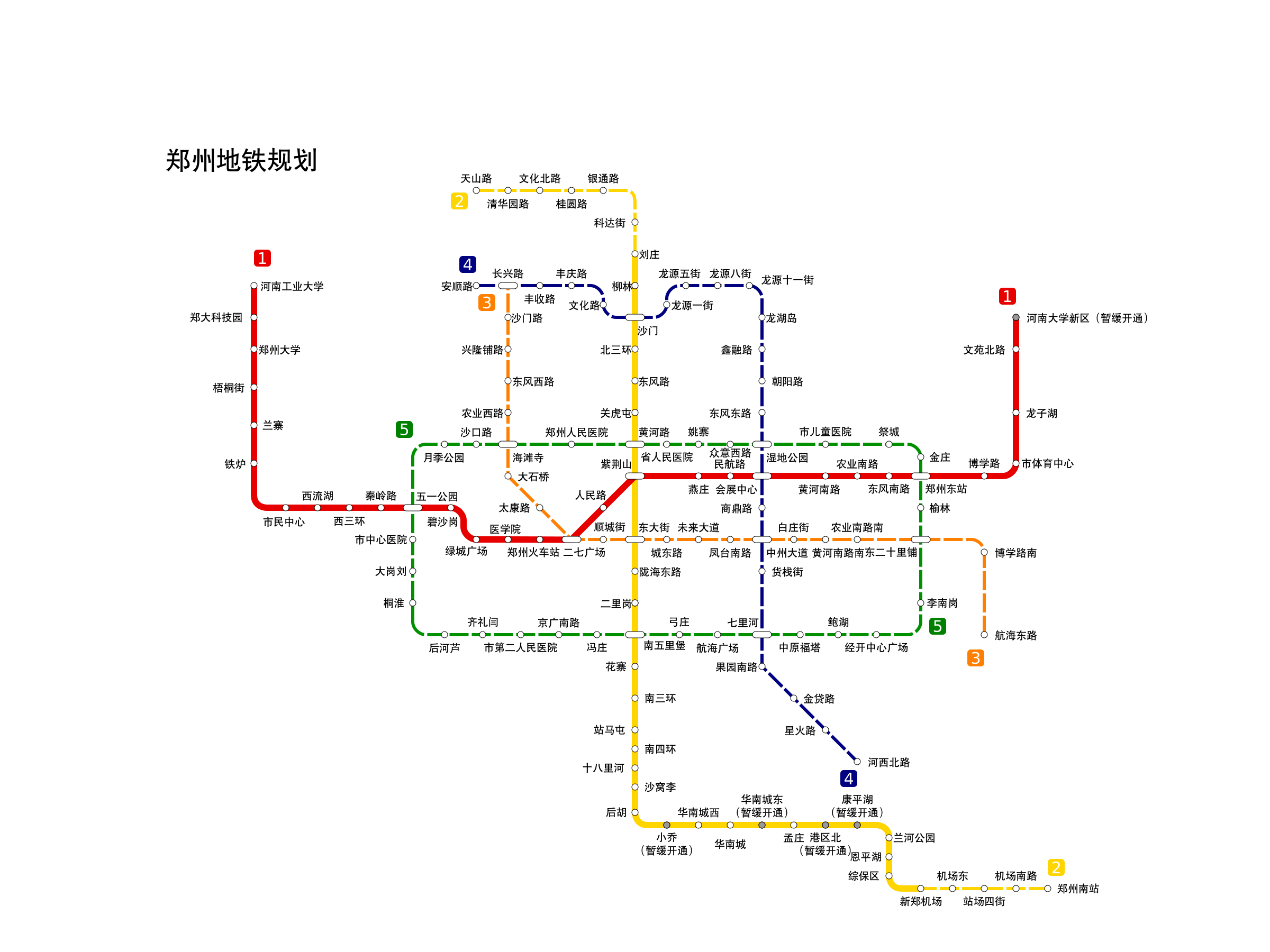 Zhengzhou Metro Plan